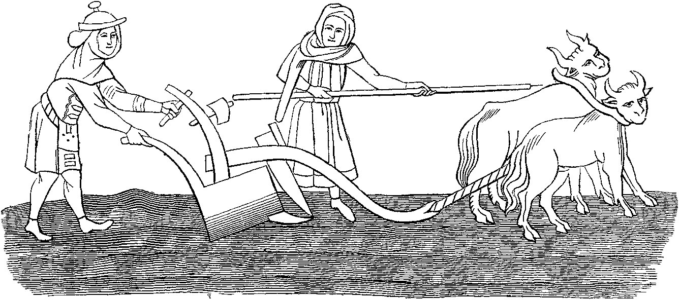 Ploughmen.--Fac-simile of a Miniature in a mediaeval manuscript published by Shaw, with legend "God Spede þe plough, and send us korne enow." Note that "þe" should be transliterated "the". Project Gutenberg text 10940 Title: Manners, Custom and Dress During the Middle Ages and During the Renaissance Period